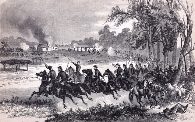 Engraving depicting the American Civil War battle at Honey Springs, Oklahoma, in 1863.